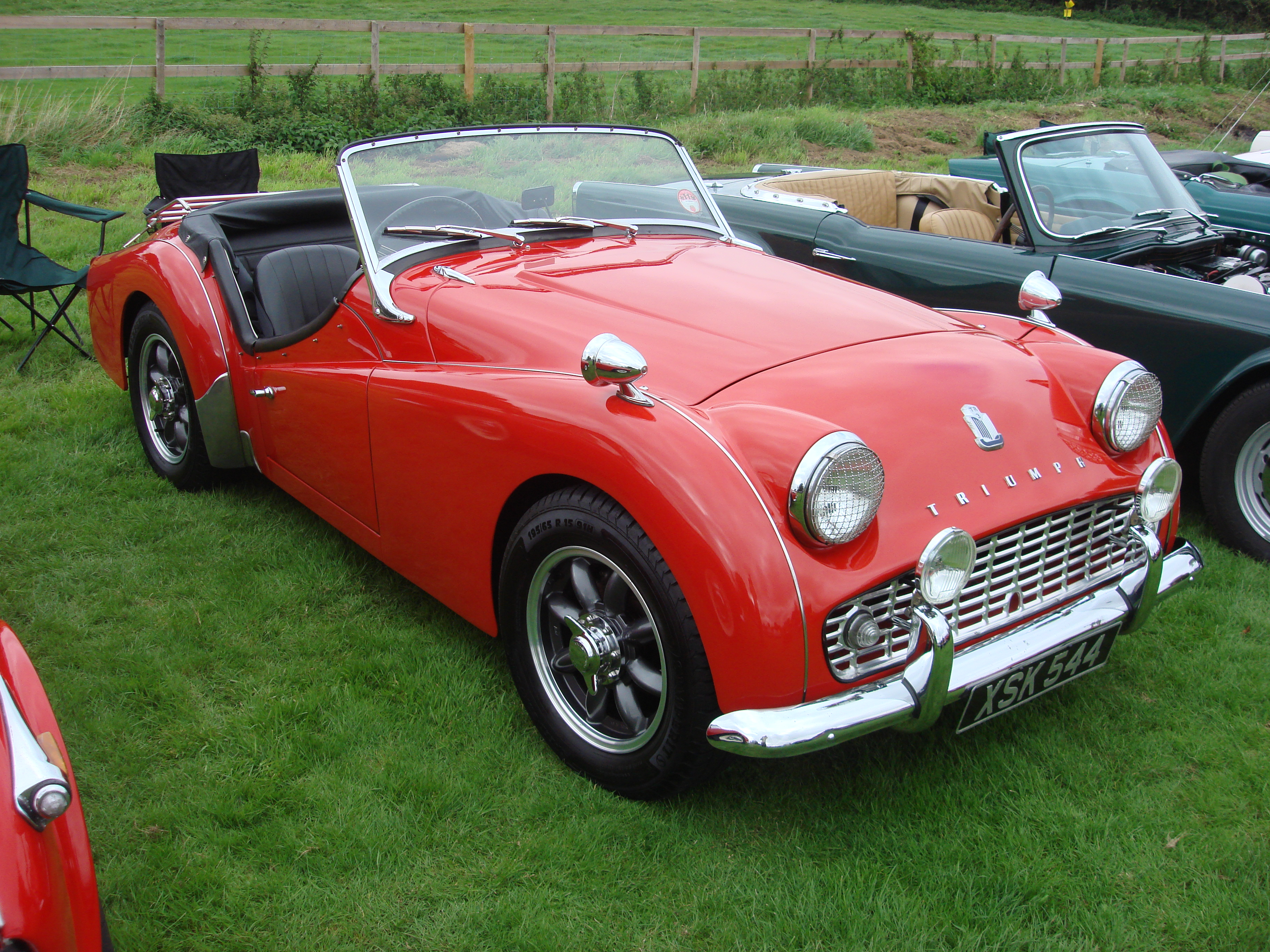 Triumph TR3